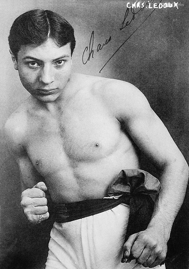 Charles Ledoux, French bantam weight boxer